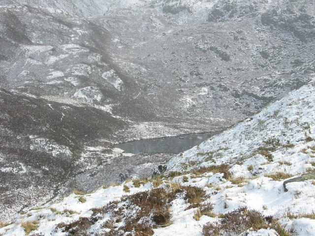 Llyn Perfeddau Looking down from a spur of Y Llethr on a bleak April day.